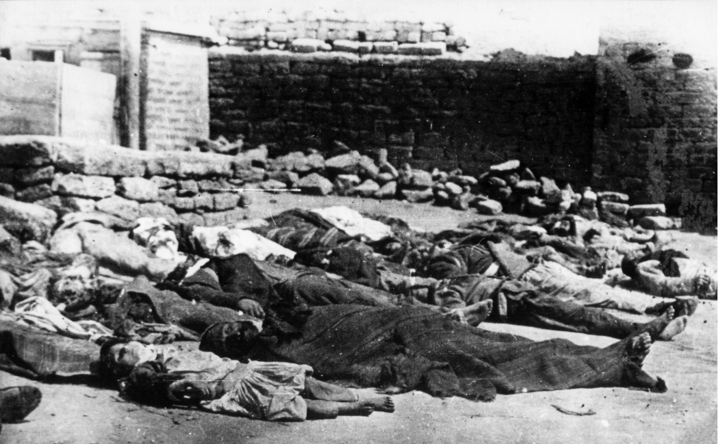 Azerbaijani victims in Baku after March days (1918)